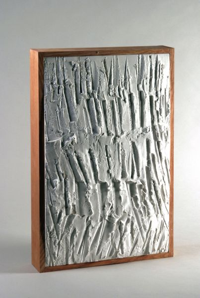 Bustle - on 2005 - Madeleine Weber's work - framed plaster drink 59x37,5x7,5 cm